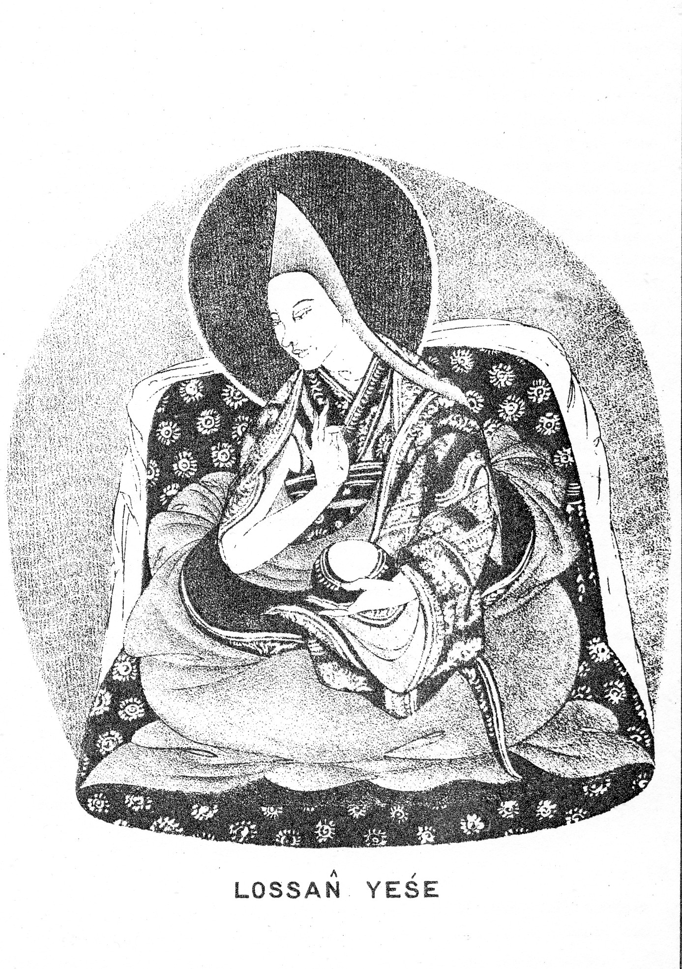 Image taken from a publication by Sarat Chandra Das (1849-1917), "Contributions on Tibet", in the Journal of the Asiatic Society of Bengal Vol. LI (1882), so it is in the public domain. John Hill 02:23, 24 September 2007 (UTC)